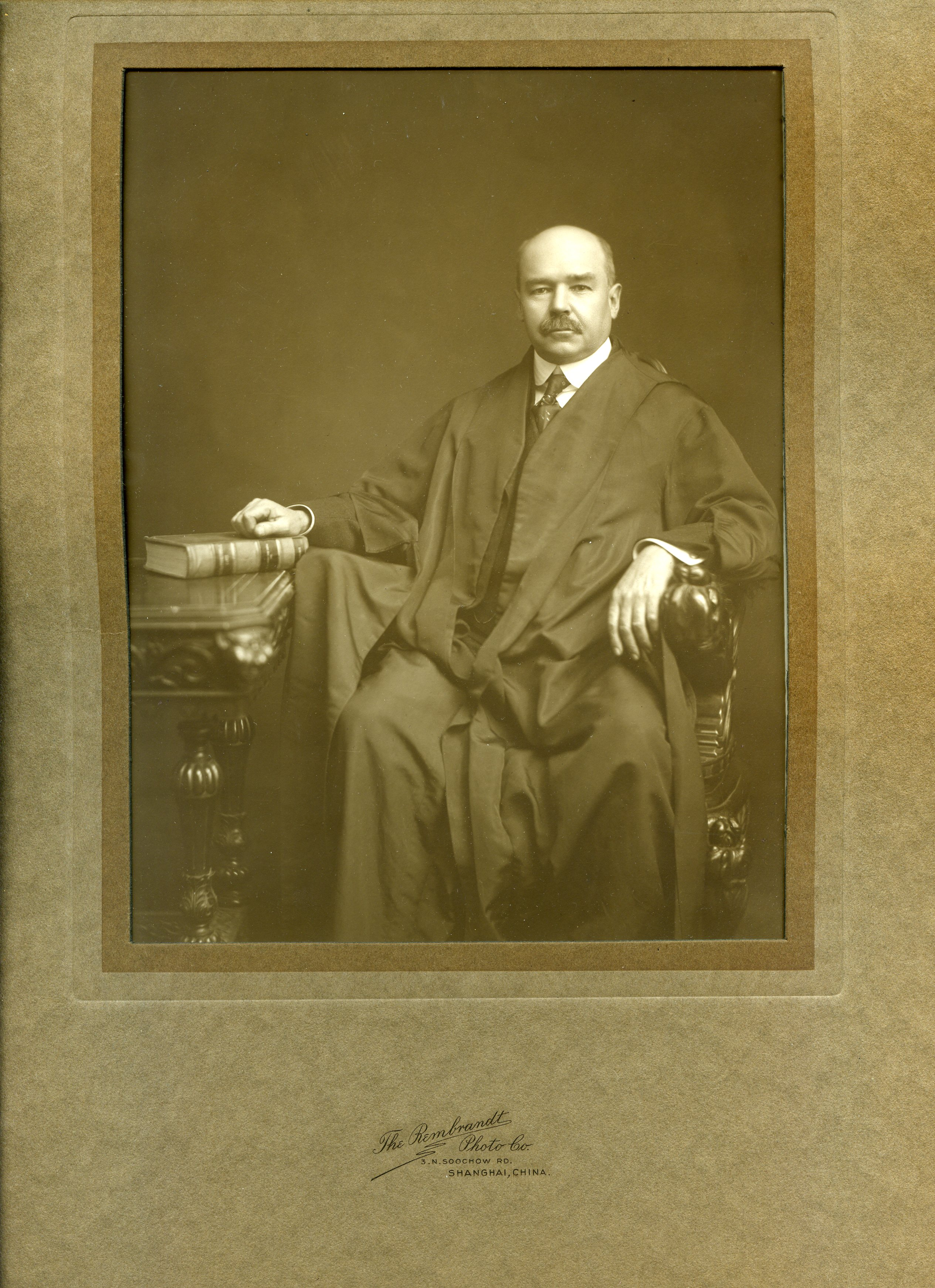 Portrait of Charles S. Lobingier, in judicial robes